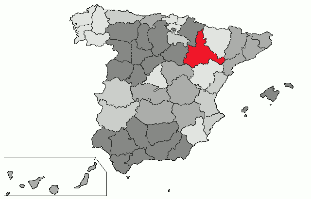 Province of Zaragoza Creado por CHV, basándose en Image:Provincia Soria.png (esta a su vez basada en Image:ProvPont.jpg de Sobreira).